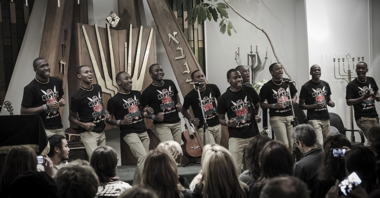 Photo of the Kenyan Boys Choir performing at Congregation Habonim Nov. 21, 2013, at Free the Children & Me to We Event in Toronto.